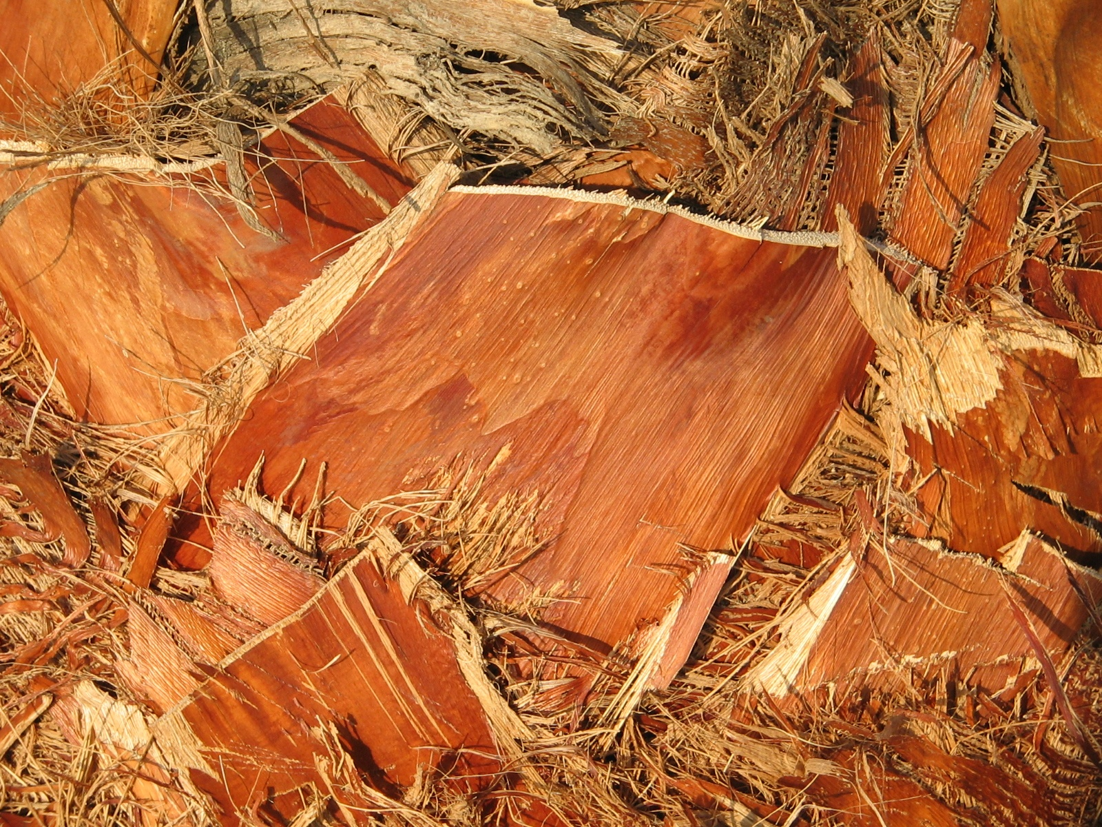 Fragments of splintery wood